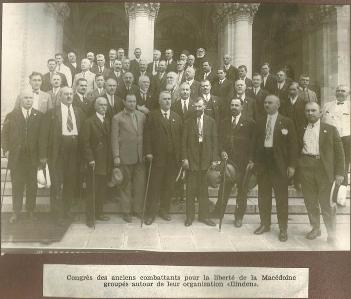 Congress members of Ilinden Organisation, Bulgaria mid 1920s